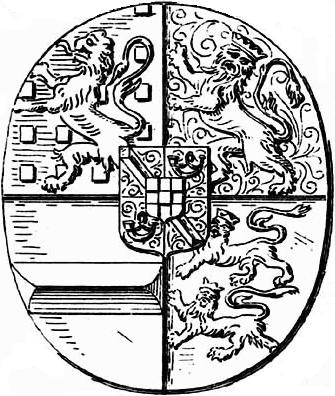 Coat of arms of Emilia van Nassau from the tombstone of Don Emanuel of Portugal, Delft.